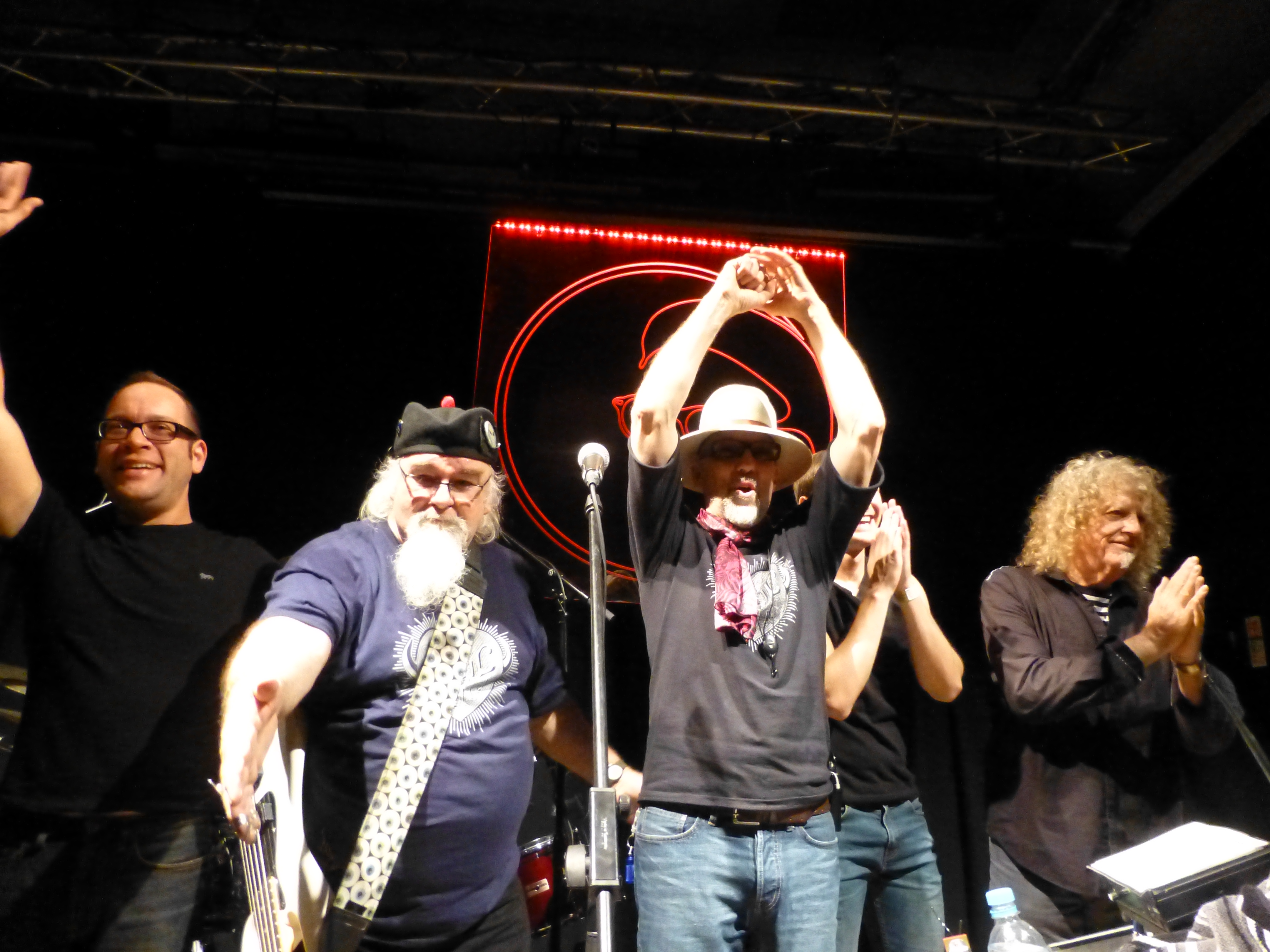 The Magic Band @ Band On The Wall, Manchester 29/5/2014